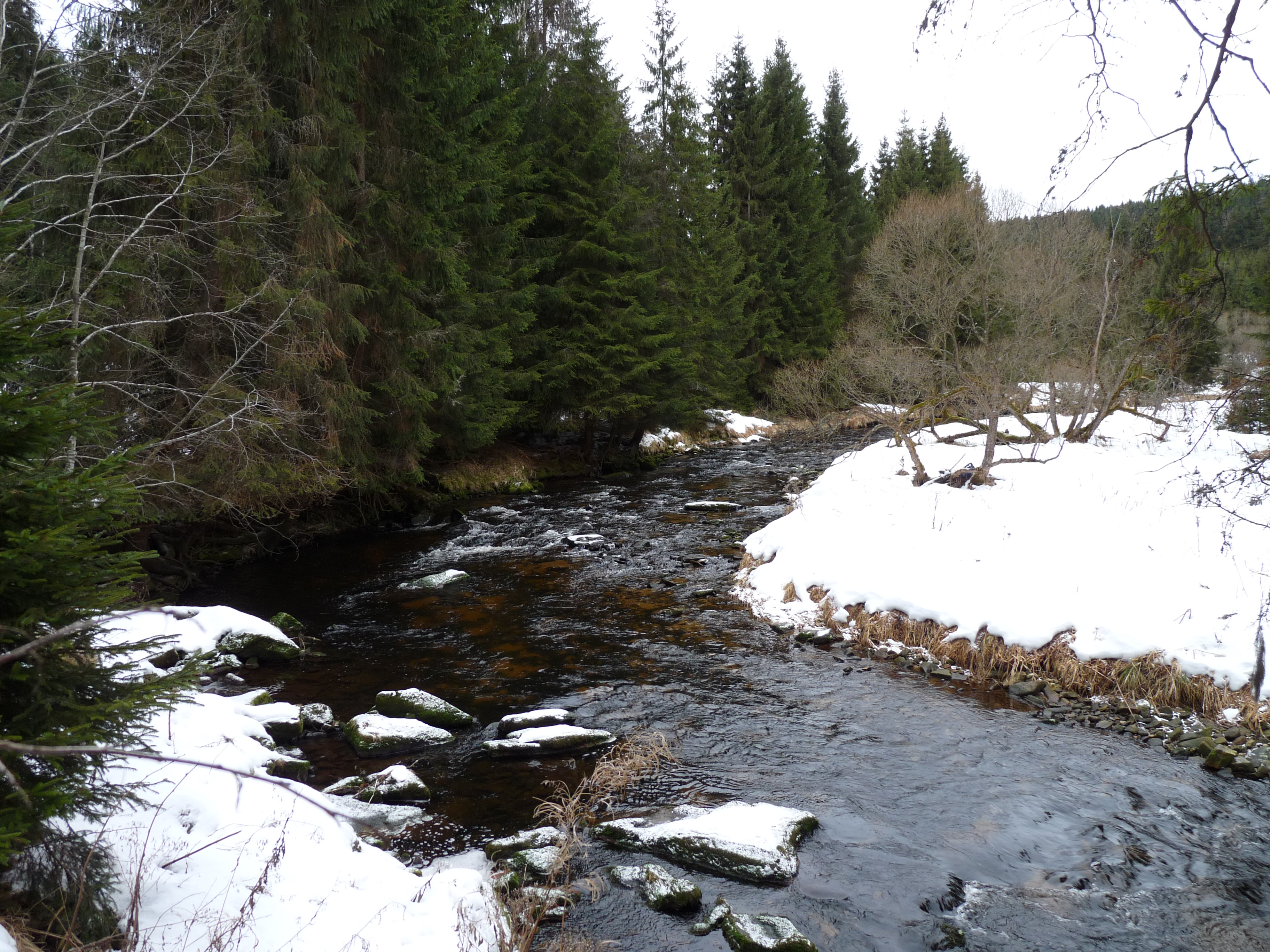 Studená Vltava (Cold Vltava River) near the village of Stožec, Prachatice District, South Bohemia, Czech Republic.